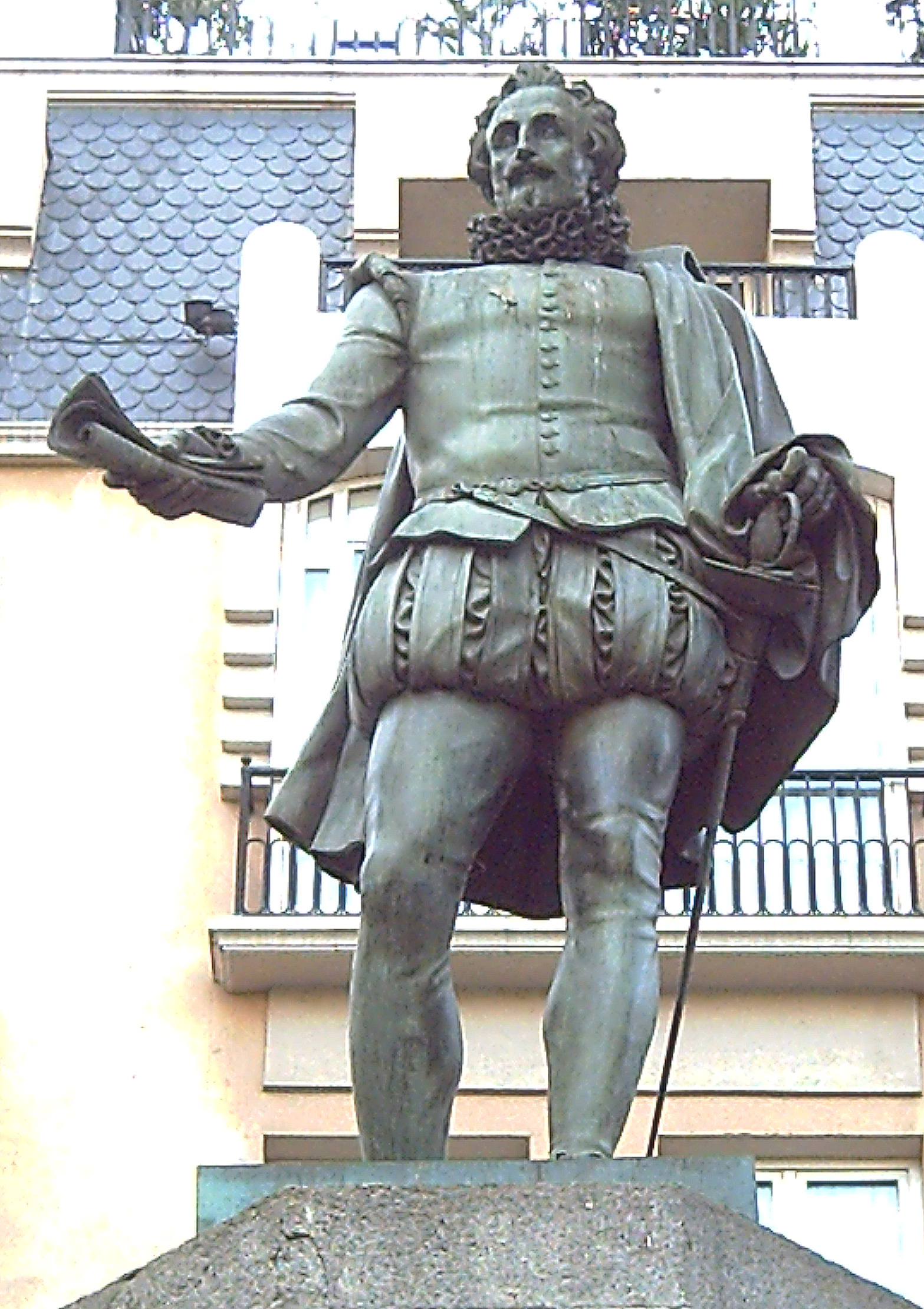 Partial view of the monument to Miguel de Cervantes at the Plaza de las Cortes (square) in Madrid (Spain), inaugurated in 1835. Bronze statue was designed by sculptor Antonio Solá and cast in Rome by Prussian artists Wilhelm N. Hopfgarten and Ludwig Jollage. Pedestal was projected by architect Isidro González Velázquez and it has two bronze reliefs by José Piquer.